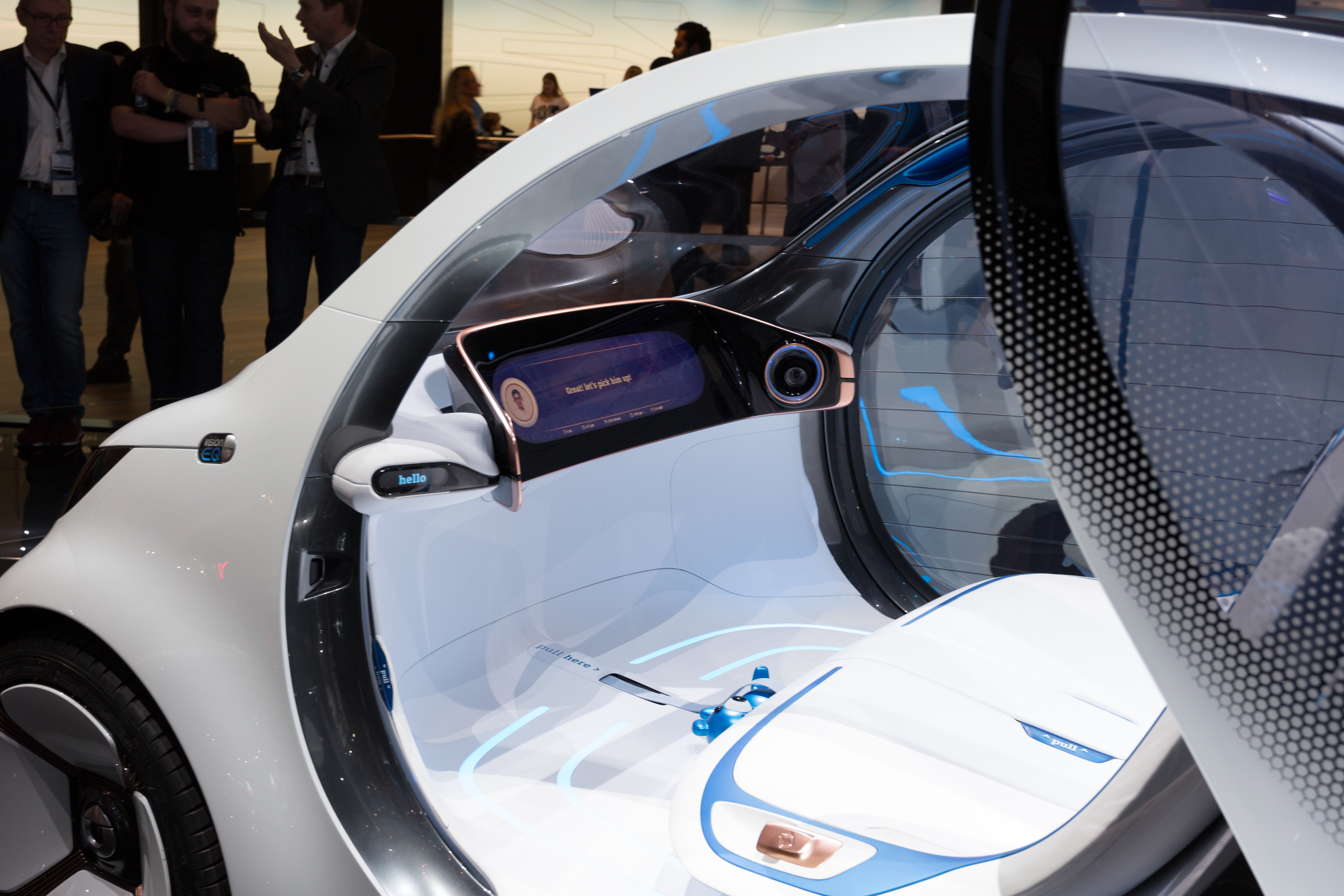 Smart Vision EQ Fortwo